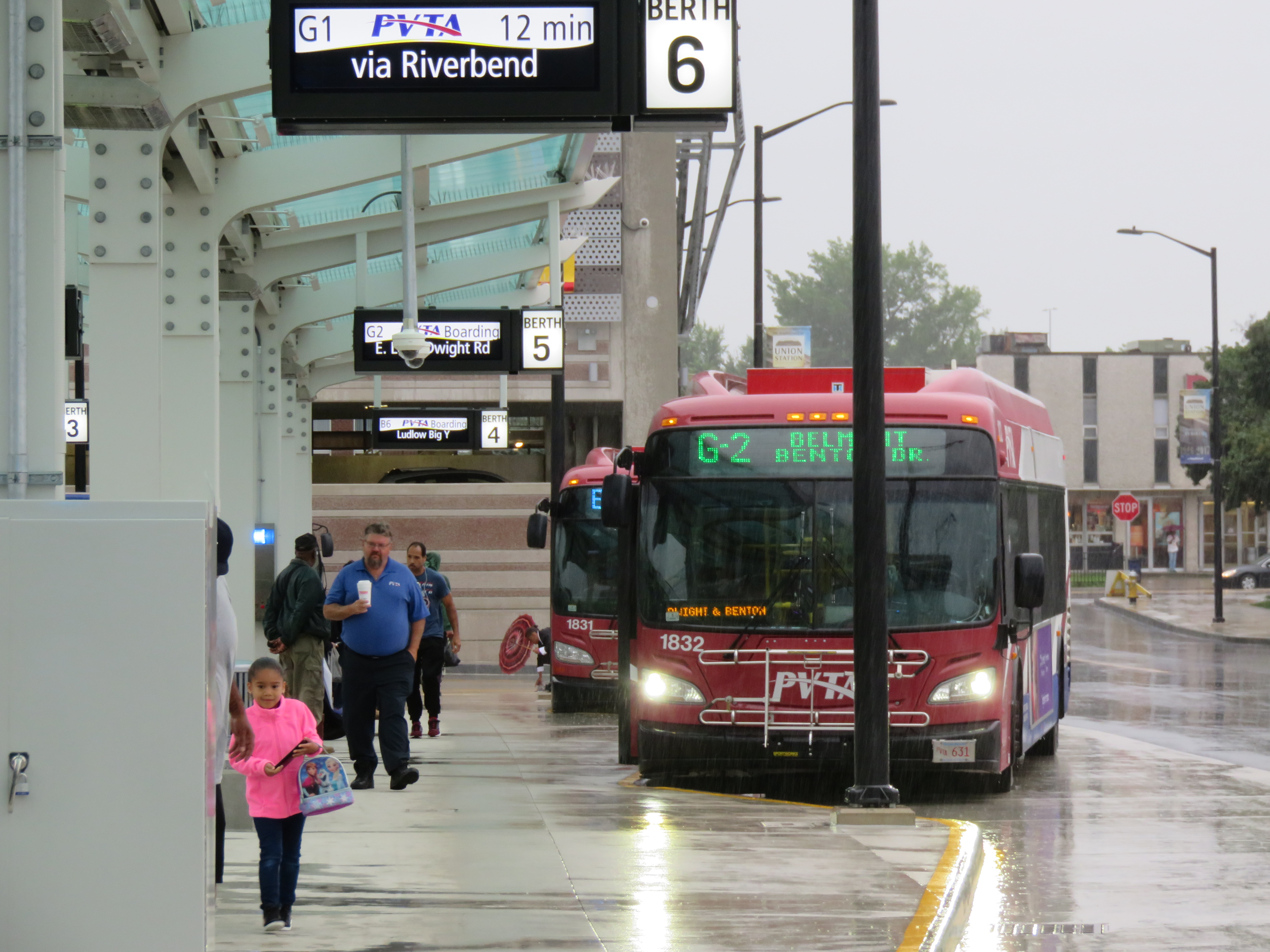 The newly opened Springfield Union Station.